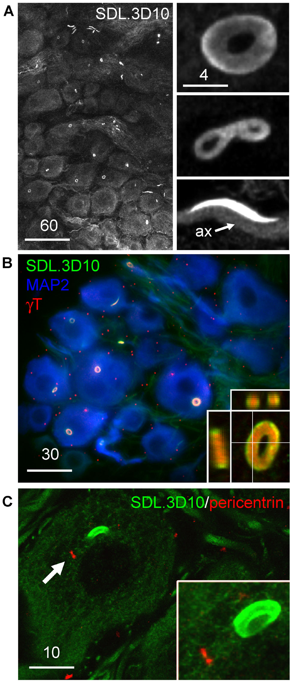 The loukoumasome A, Loukoumasomes and their morphological variants in whole-mounted pelvic ganglion (confocal stack). ax = axon. B, The loukoumasome contains γ-tubulin (γT). Glial centrosomes are apparent as small dots (pelvic ganglion, standard epifluorescence, z-stack, maximum projection). Inset: confocal orthogonal view showing distribution of SDL.3D10 and γ-tubulin immunoreactivity. MAP2: microtubule-associated protein 2. C, Unlike centrioles (arrow, single confocal slice), loukoumasomes are pericentrin-negative (Inset: confocal stack). Scale bar units: µm.